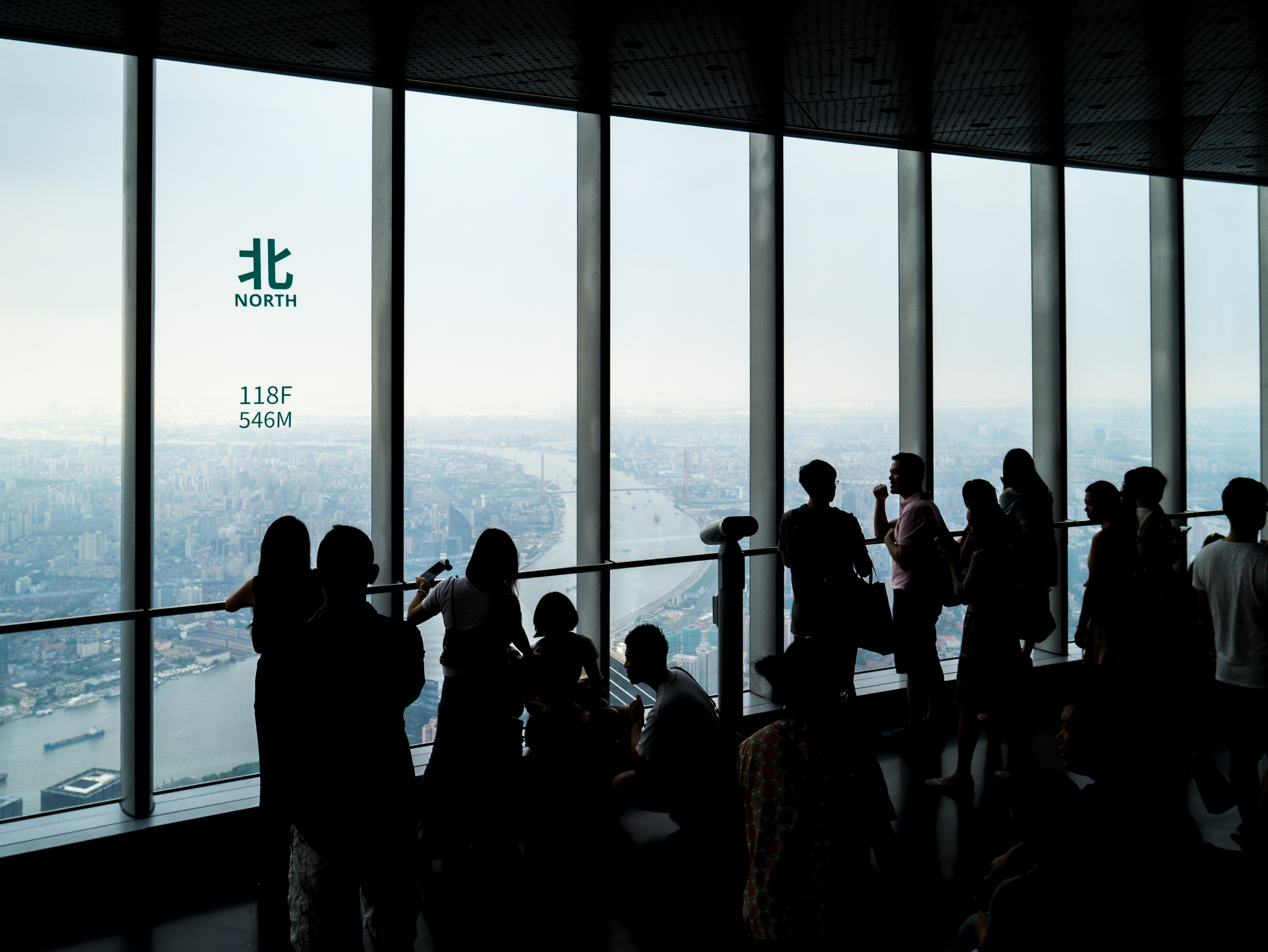 View from inside the observation deck on floor 118 of the Shanghai Tower